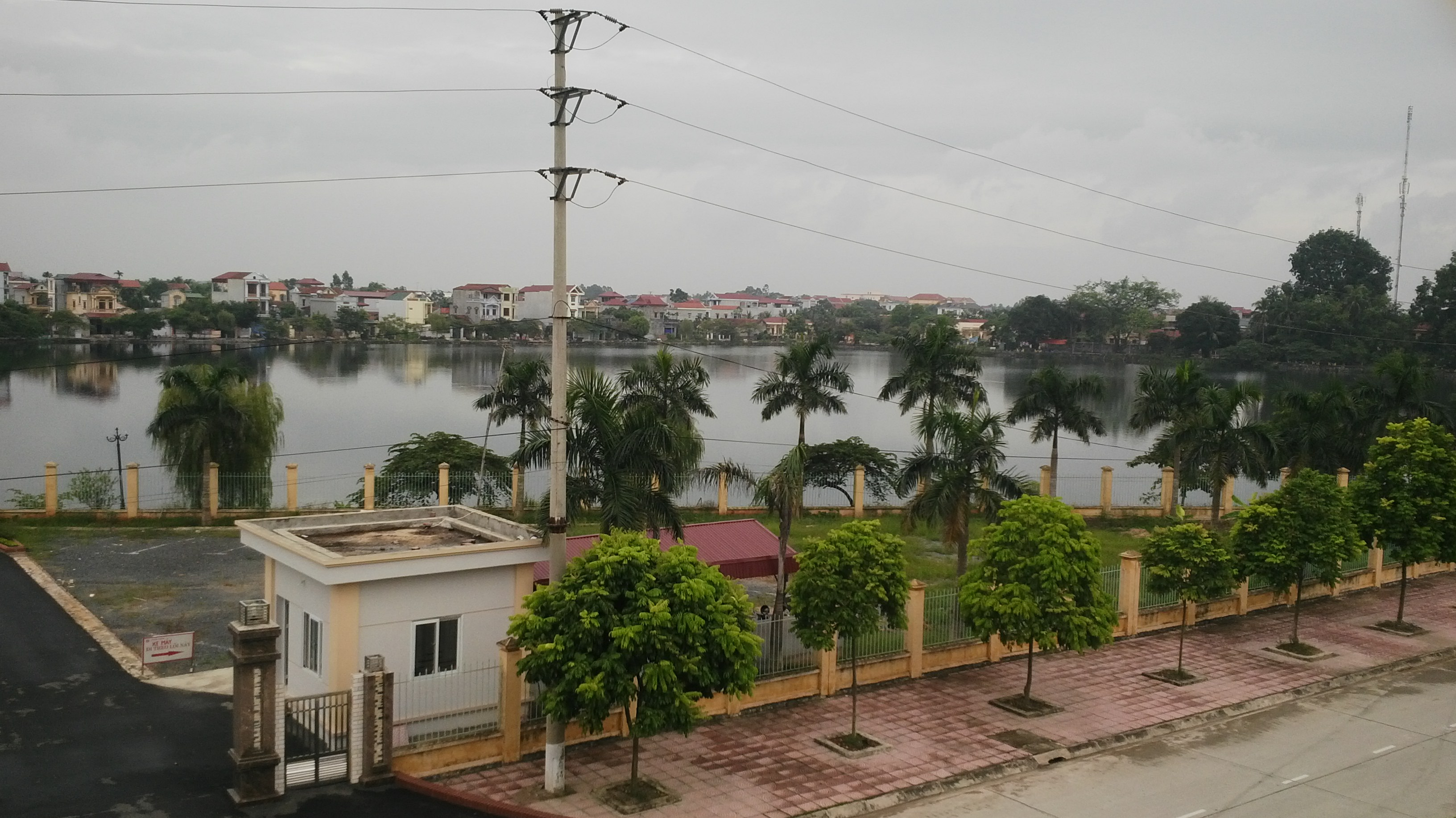 Một góc Vĩnh Tường